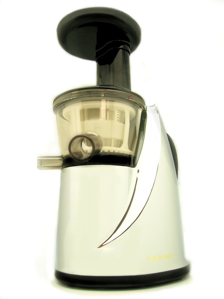 hurom Juicer